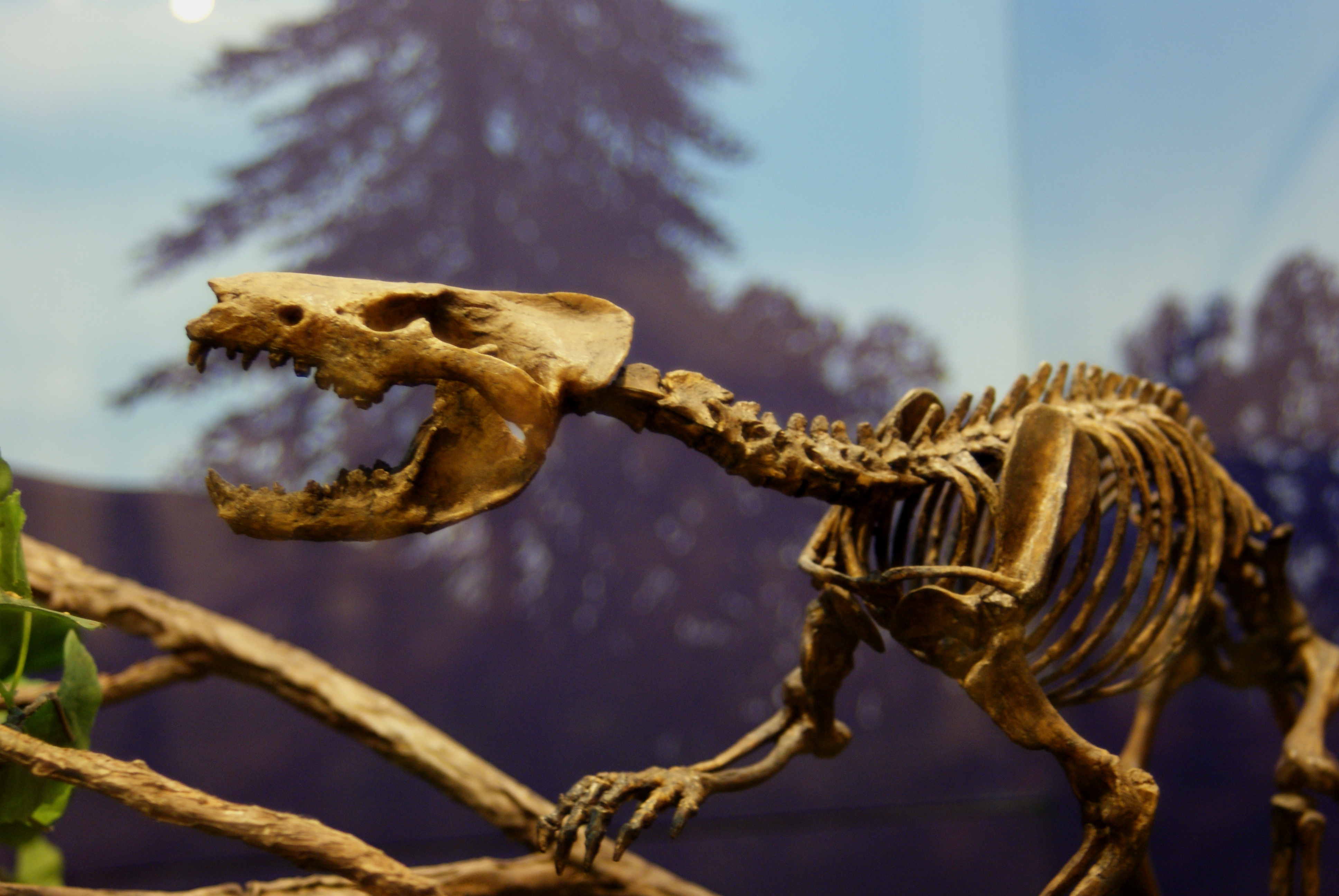 Early mammal, Gobiconodon sp. from the early to mid Cretaceous; at the Museum of Texas Tech University